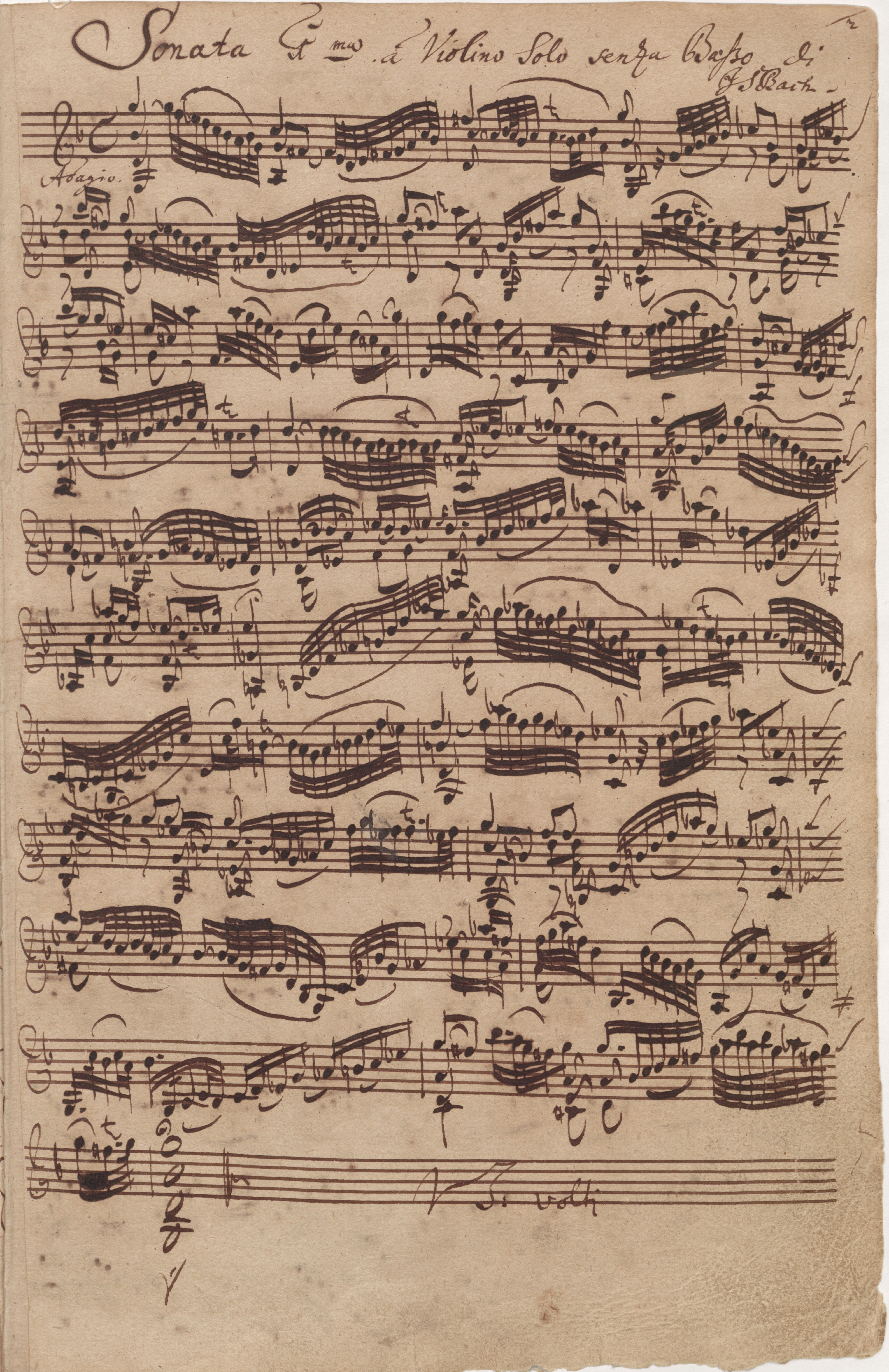 First page with opening adagio from the sonata for solo violin, BWV 1001, by J.S. Bach, autograph manuscript. High resolution image: please use zoom button to choose different levels of magnification.